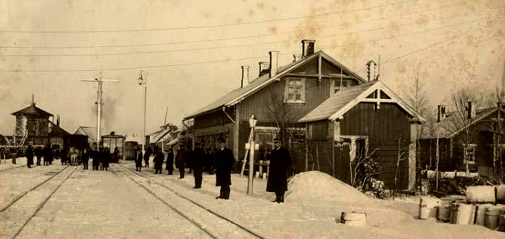 Viljandi (Fellin) train station in 1905.